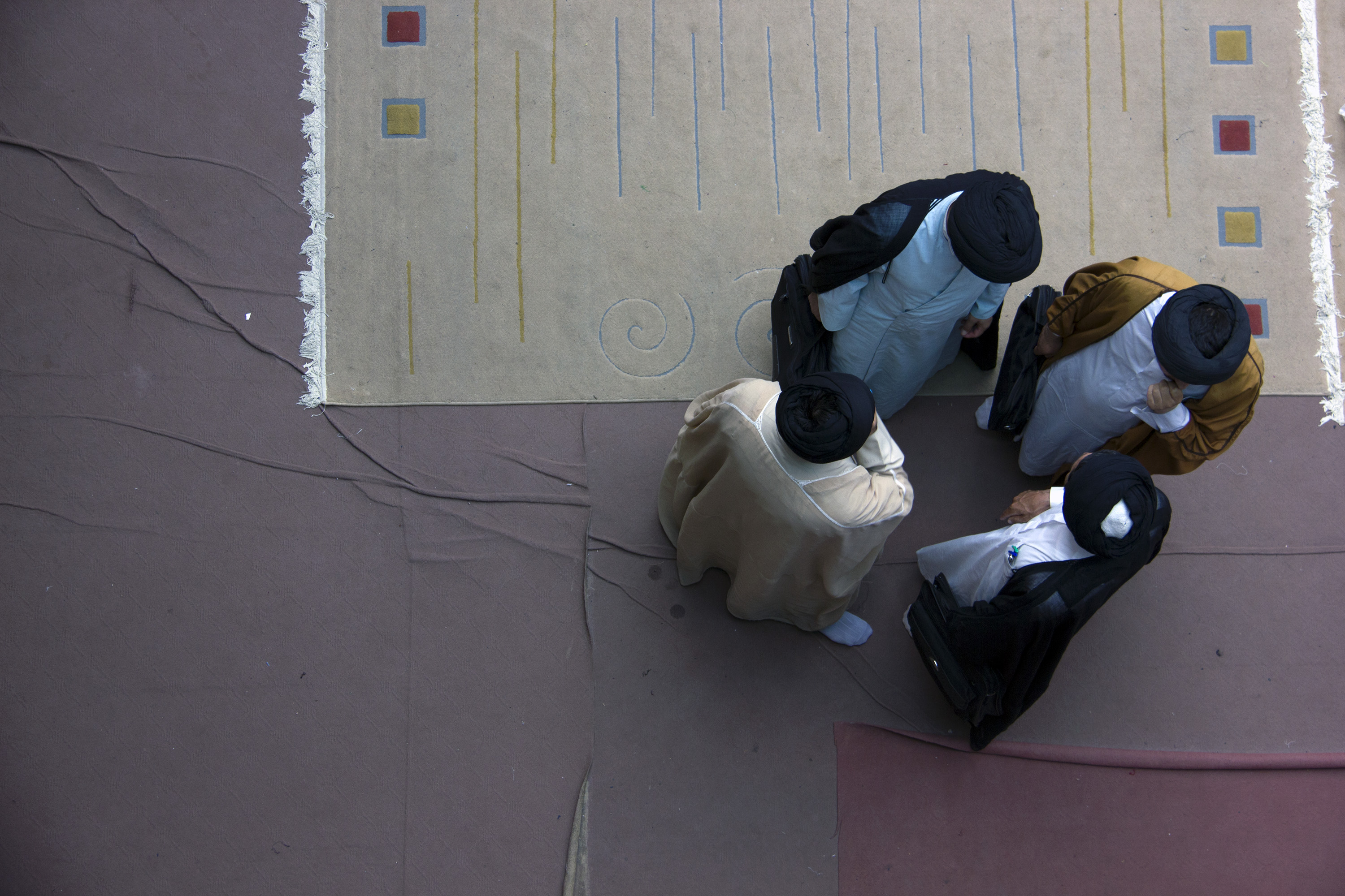 Clergy are some of the main and important formal leaders within certain religions.